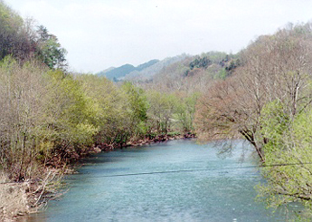 The Clinch River from U.S. Highway 23/58/421 at Speers Ferry in Scott County, Virginia.